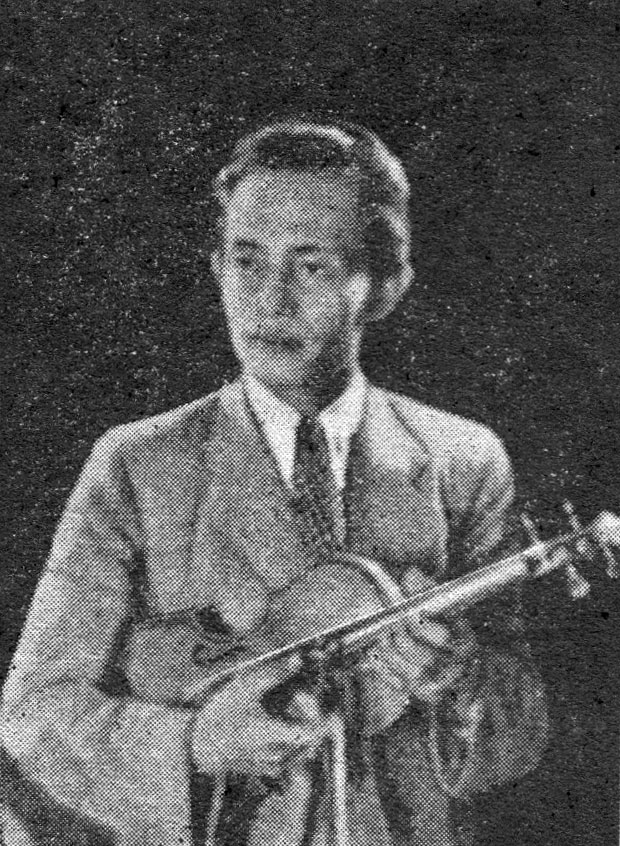 Indonesian musician Koesbini